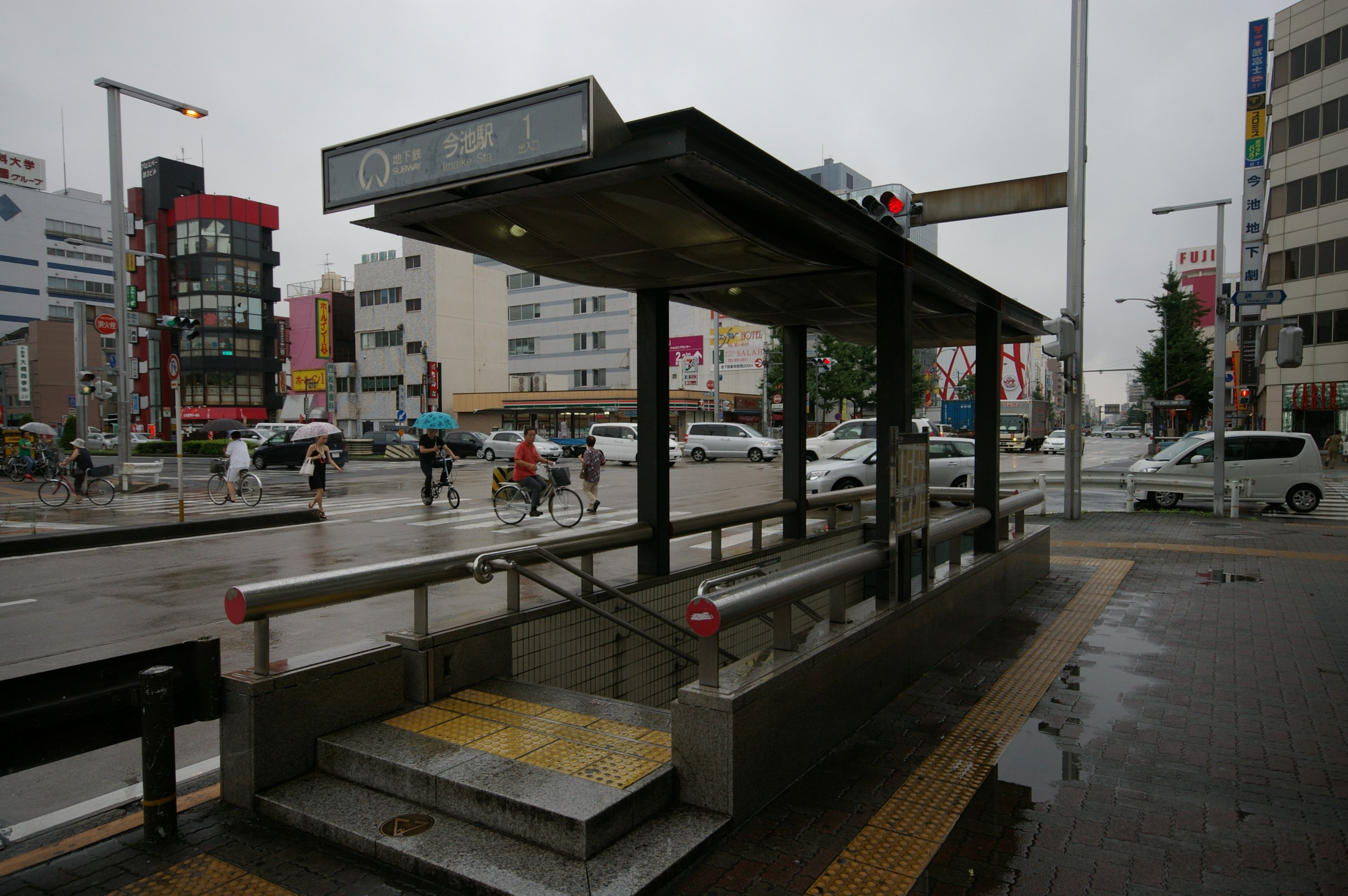 Nagoya Subway Imaike Station Entrance